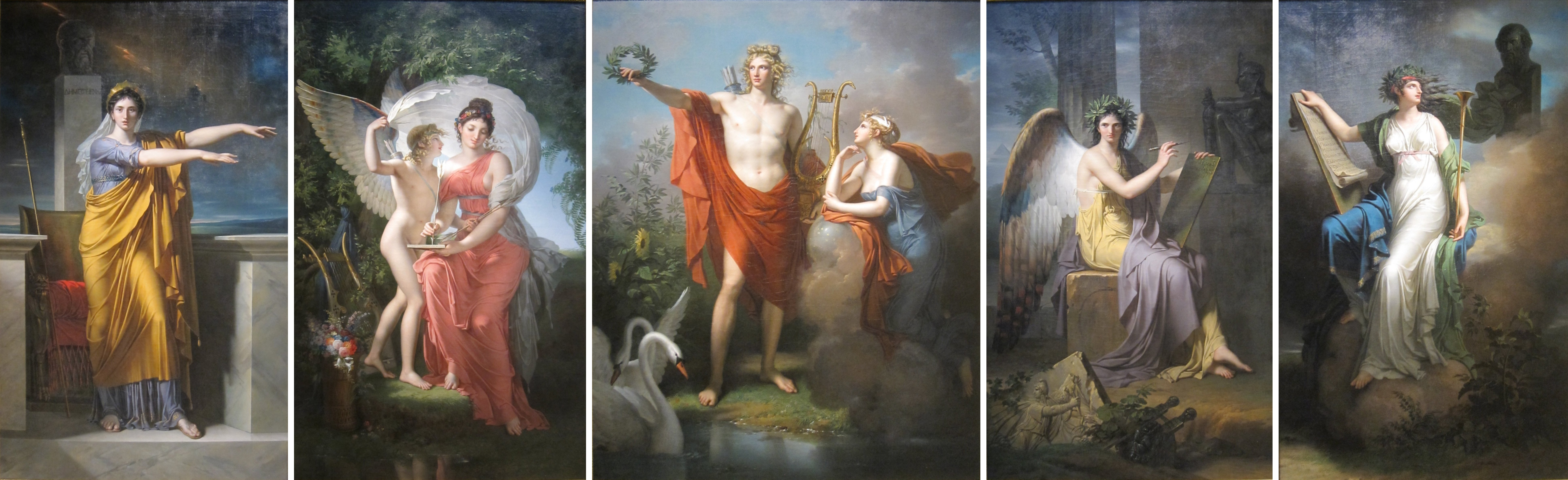 oil on canvas polyptych, from left to right:Polyhymnia, Muse of Eloquence Erato, Muse of Lyrical PoetryApollo, God of Light, Eloquence, Poetry and Fine Arts with Urania, Muse of AstronomyClio, Muse of HistoryCalliope, Muse of Epic Poetry Cleveland Museum of Art Native nameCleveland Museum of ArtLocationCleveland, United States of AmericaCoordinates41° 30′ 32″ N, 81° 36′ 42″ W Established1913 (Officially opened in 1916)Web page control : Q657415 VIAF: 125472356 ISNI: 0000 0004 1936 7873 ULAN: 500209693 LCCN: n78087650 NLA: 35029027 WorldCat institution QS:P195,Q657415